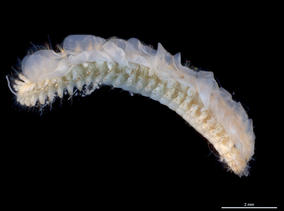 This image represent a member of Eulepethidae's family, within Aphroditiformia.